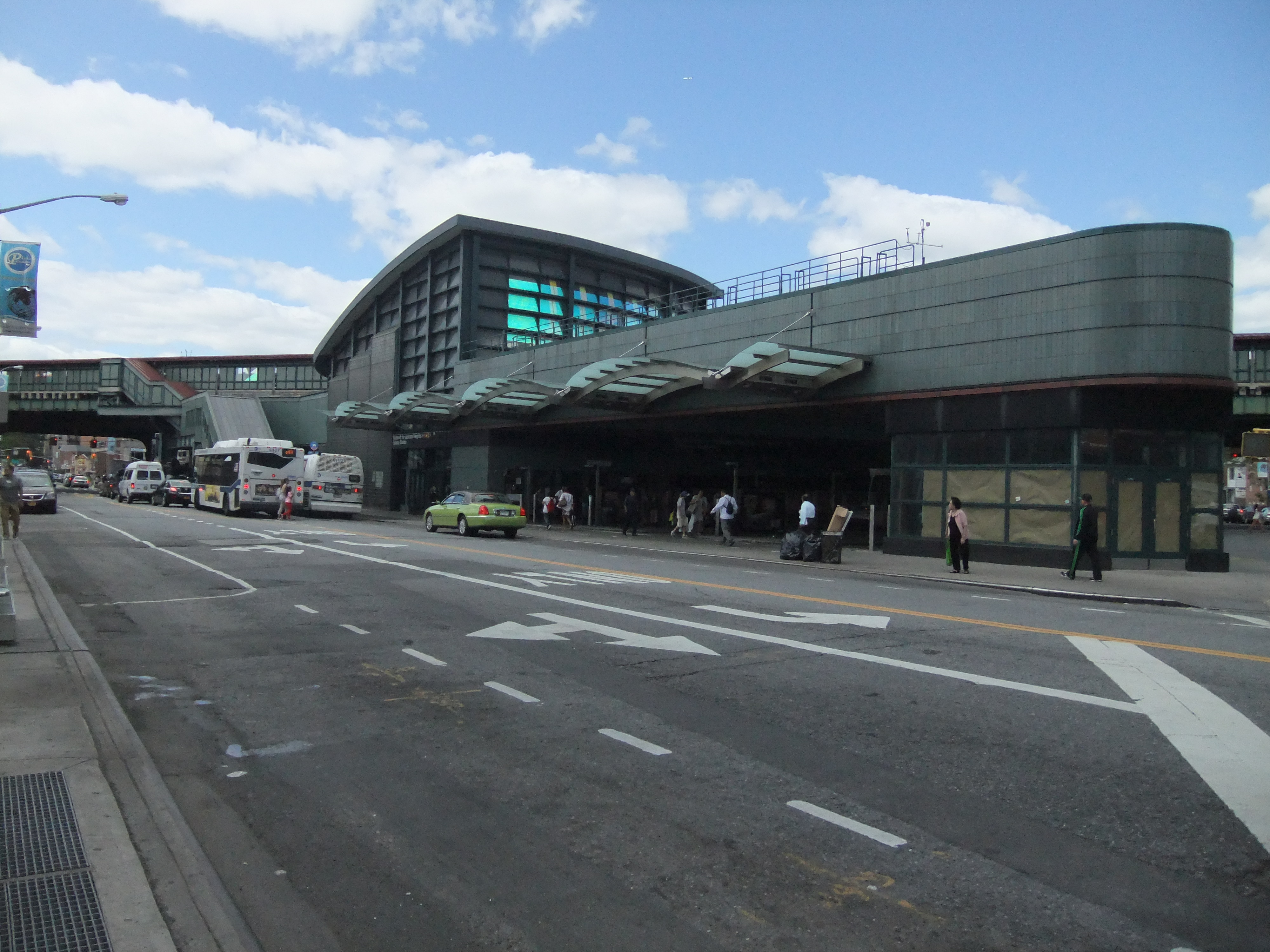 Bus terminal and station at 74th Street/Bway/Roosevelt Avenue.